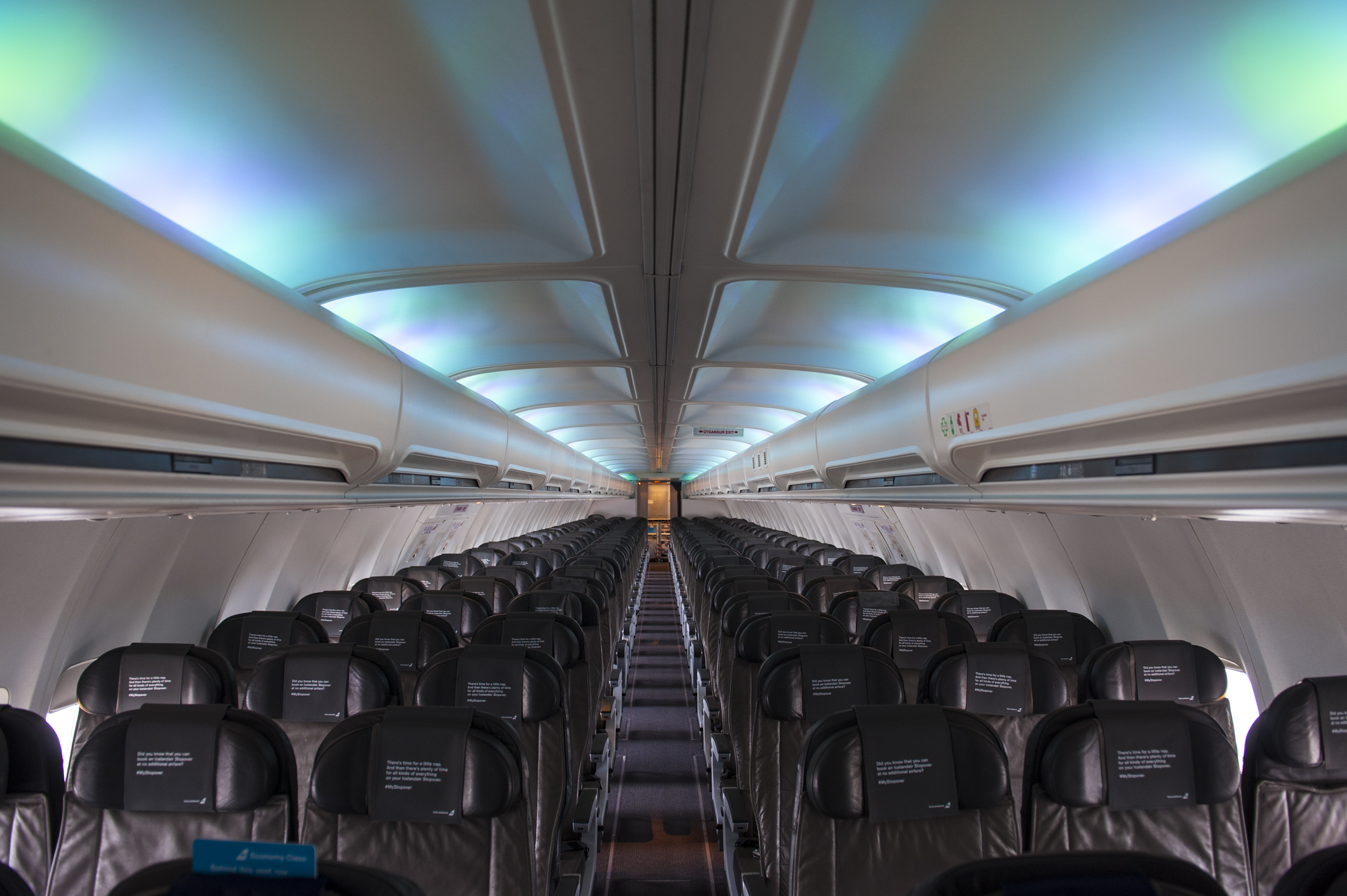 Hekla Aurora cabin